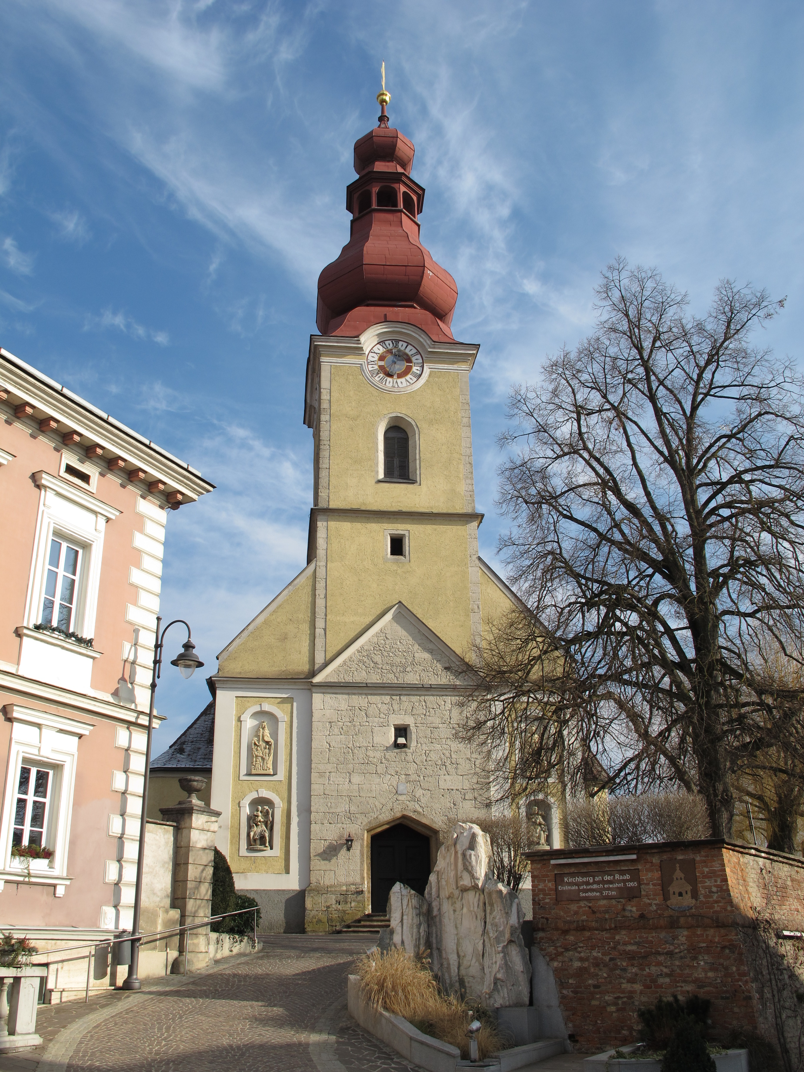 Pfarrkirche Kirchberg an der Raab